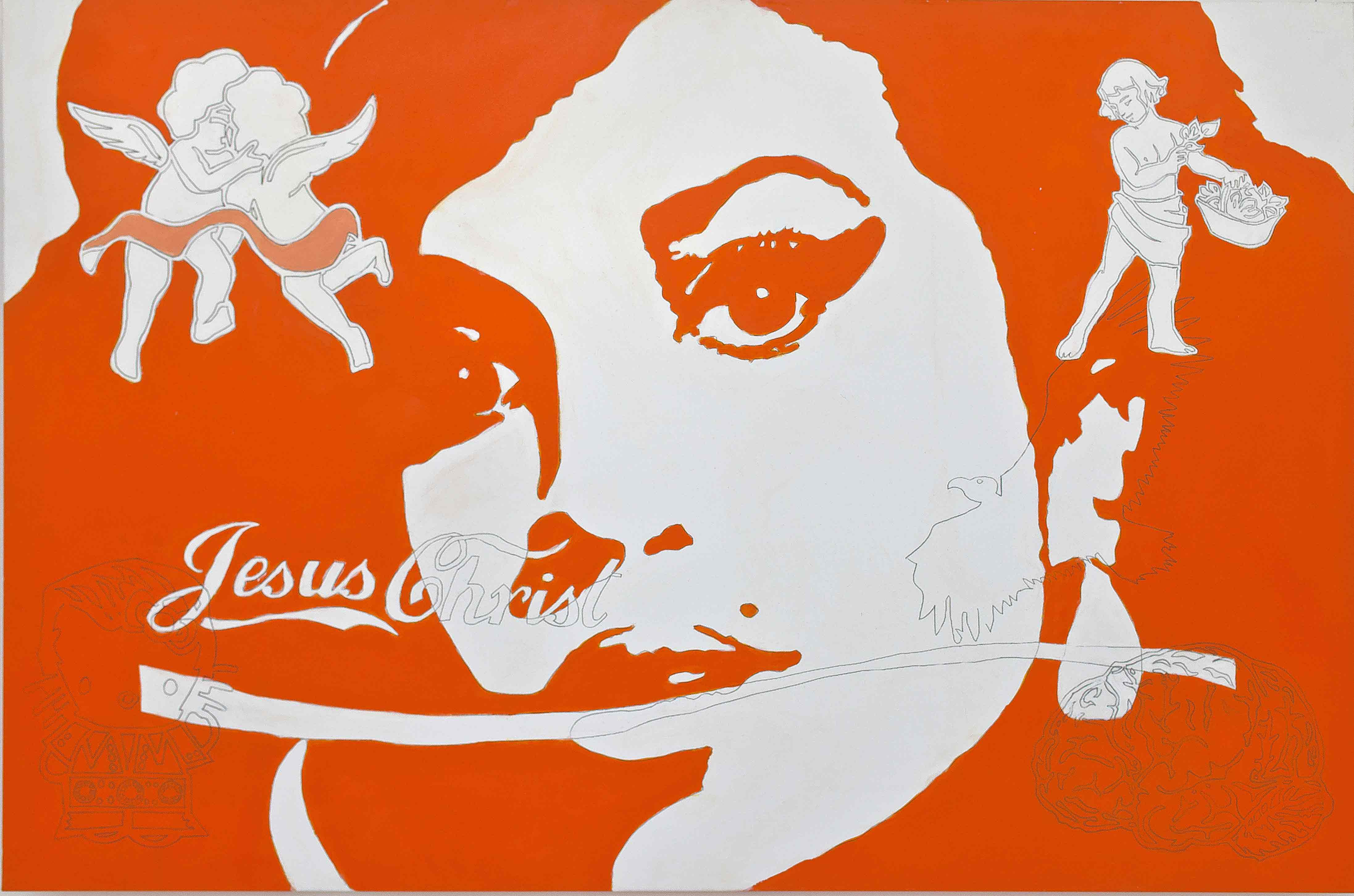 Painting Heroes, Amy (2011), combined technique on canvas, 80x120 cm